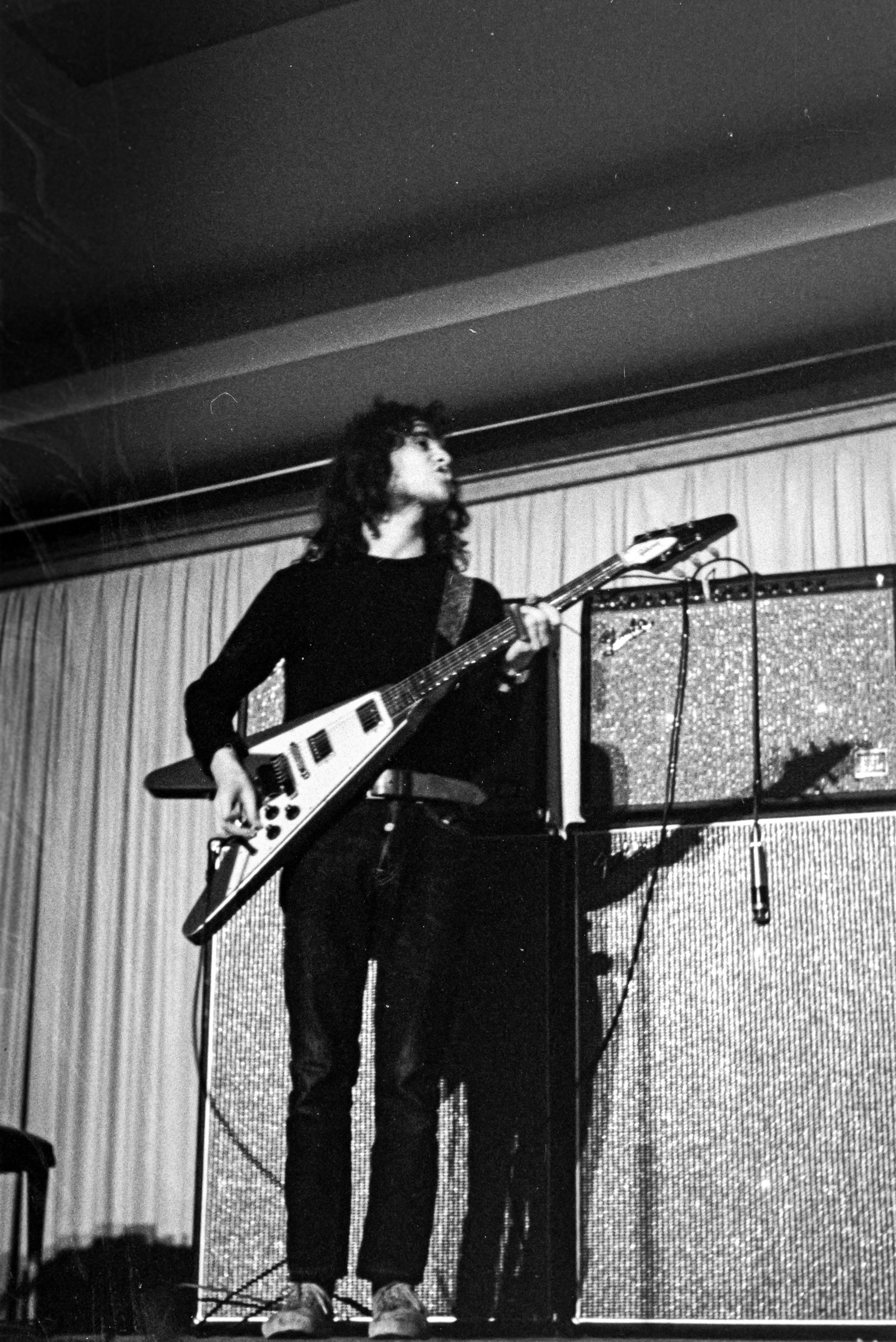 Jeremy Spencer, Fleetwood Mac, March 18, 1970 Niedersachsenhalle, Hannover, Germany The Touring Band: Mick Fleetwood - Percussion, Peter Green - Lead Vocals/Guitar/Harmonica (left band in May), John McVie - Bass Guitar, Jeremy Spencer - Vocals/Guitar, Danny Kirwan - Vocals/Guitar